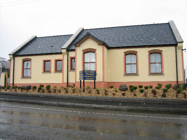 Reformed Theological College. The Theological College of the Reformed Presbyterian Church of Ireland.